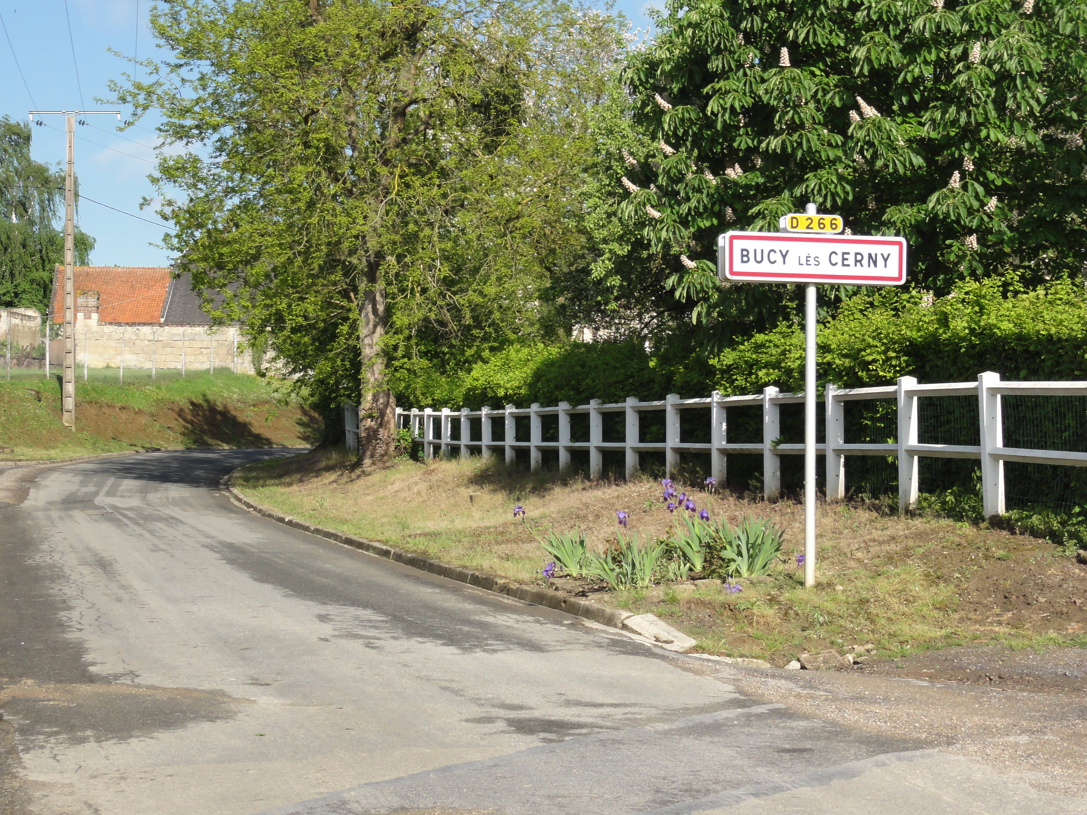 Bucy-lès-Cerny (Aisne) city limit sign